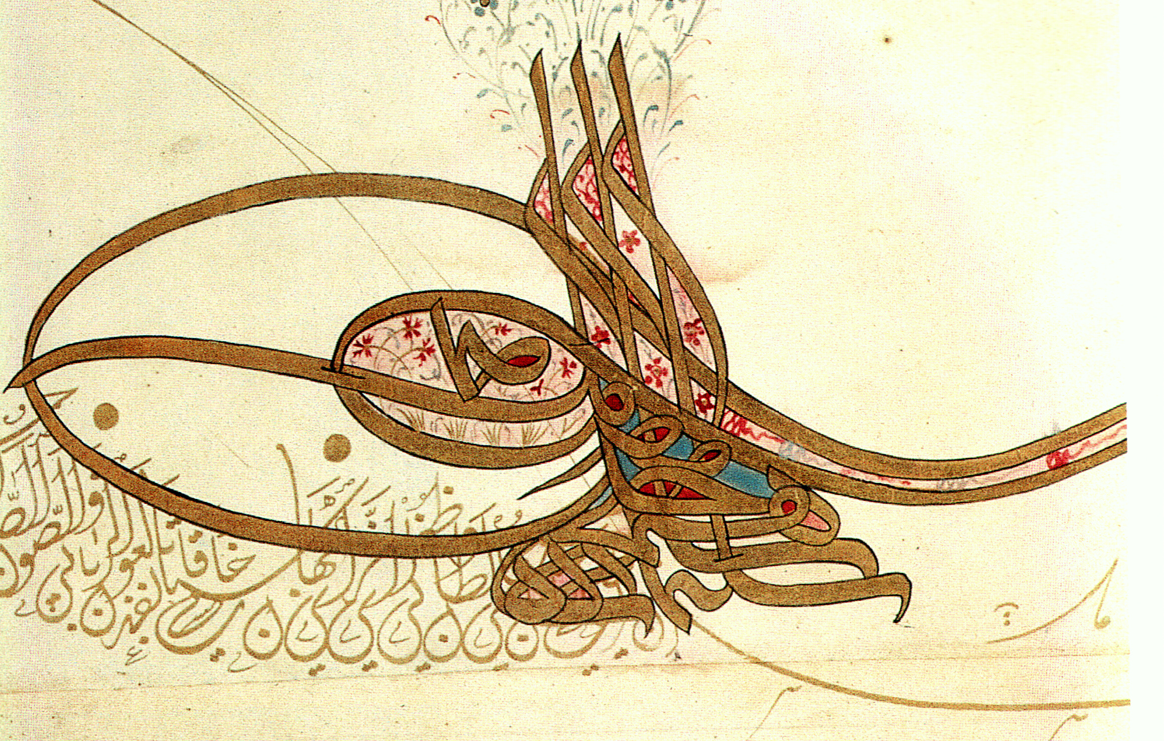 Tugra drawn on a berat dating from the reign of Suleyman II. Written in gold ink, it reads: Sah Suleyman bin Ibrahim Han el-muzzafer daima (Shah Suleyman, son of Ibrahim Han, the ever victorious).